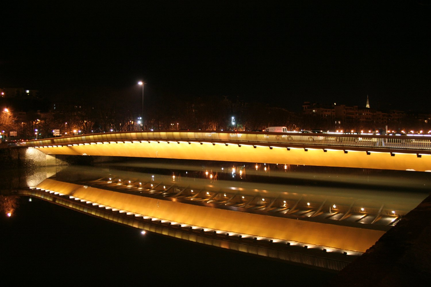 Mundaiz bridge. Donostia-Saint Sebastian, Gipuzkoa. Basque Country.